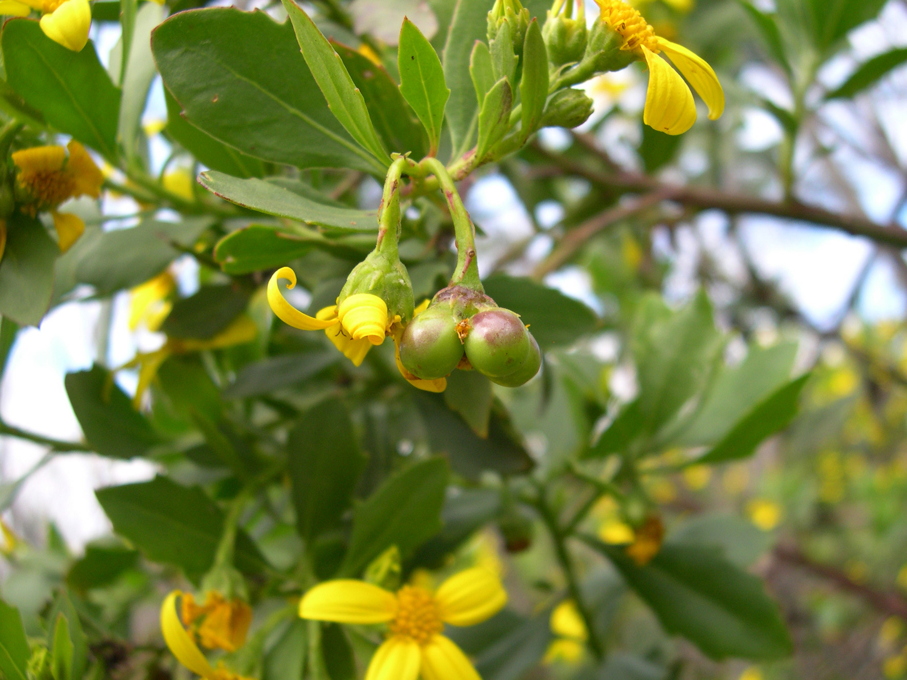 Flower of the boneseed weed. You Yangs, Victoria. Boneseed is a weed species that is prevalent in south-eastern Australia. The You Yangs has a large infestation of some 2000ha. Boneseed is classified as a Weed of National Significance (WONS). Weeds of National Significance are regarded as the worst weeds in Australia because of their invasiveness, potential for spread, and economic and environmental impacts.